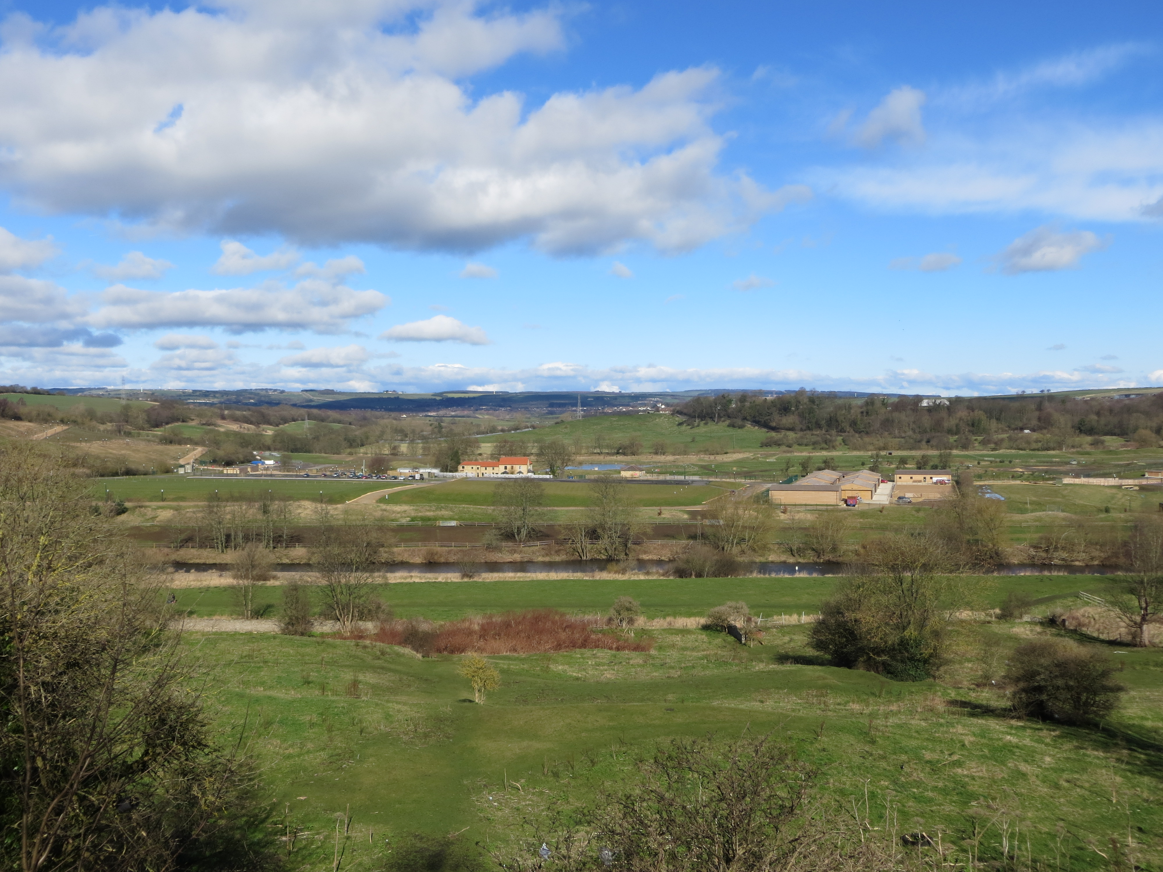 A view of Flatts Farm, the venue for Kynren. Taken from Bishop Auckland.